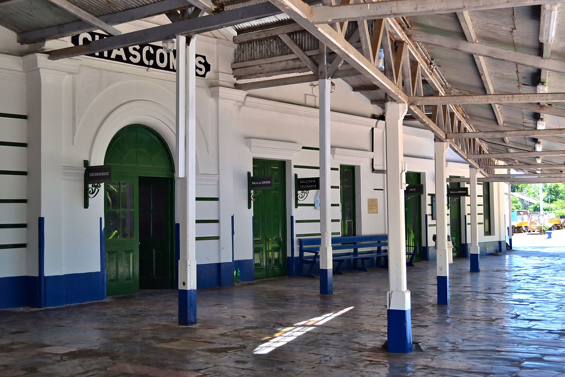 Old Chascomús train station.